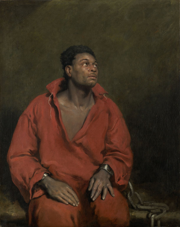 The Captive Slave. Portrait by John Simpson (1827) in the collection of the Art Institute of Chicago